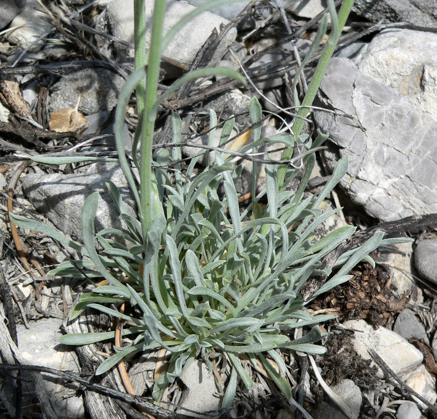 Erigeron argentatus in middle Lee Canyon near the road, Spring Mountains, southern Nevada (elev. about 2000 m)